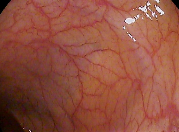 Colonoscopyimage, splenic flexure, Normal colon mucosa. You can see spleen through it : the black part.